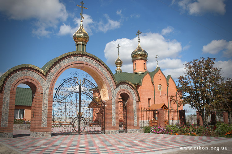 head